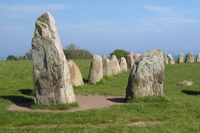 Ale's stones